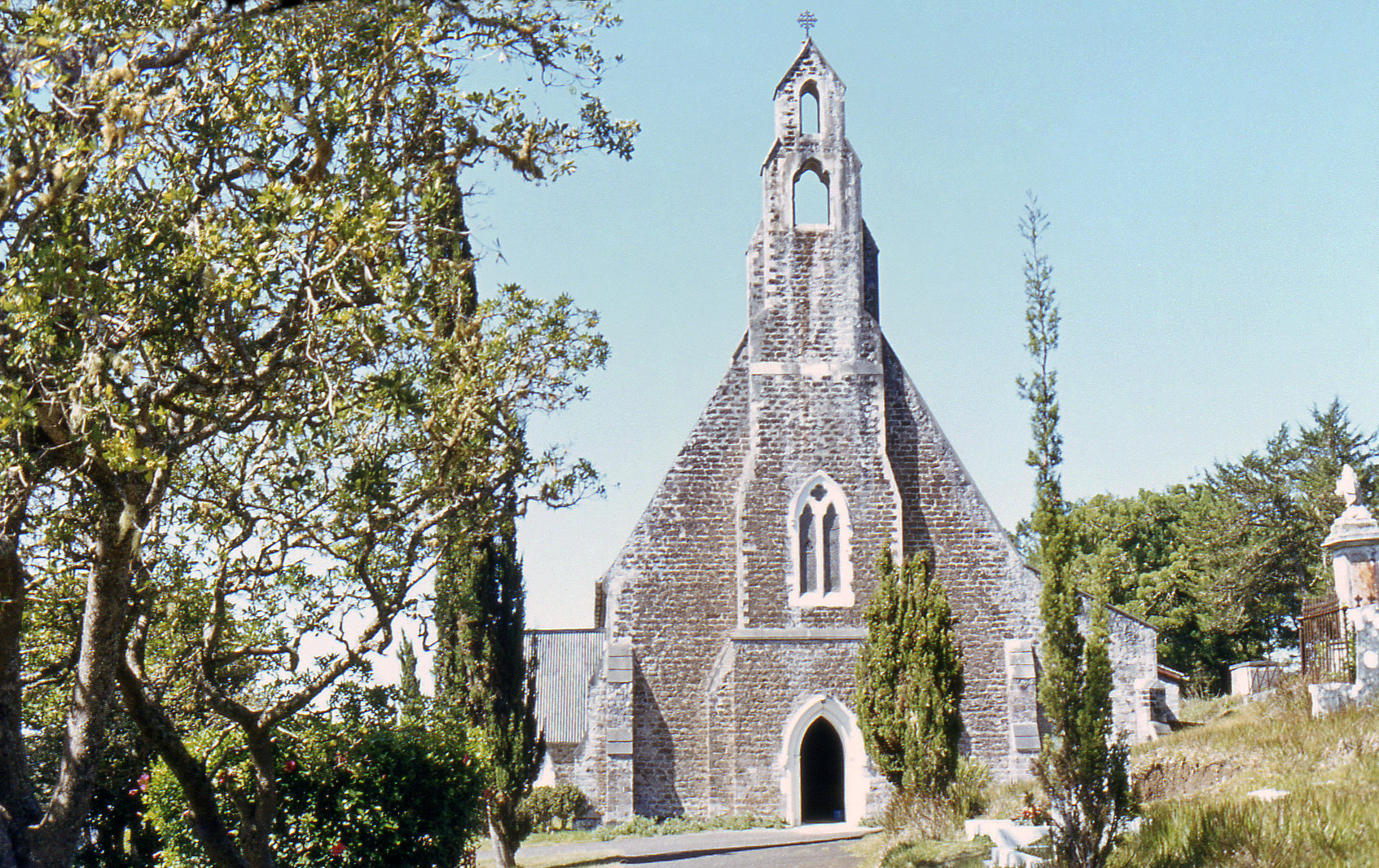 The front of Saint Paul's Cathedral, St Helena Island. Anglican Diocese of Saint Helena, Parish of St Paul.